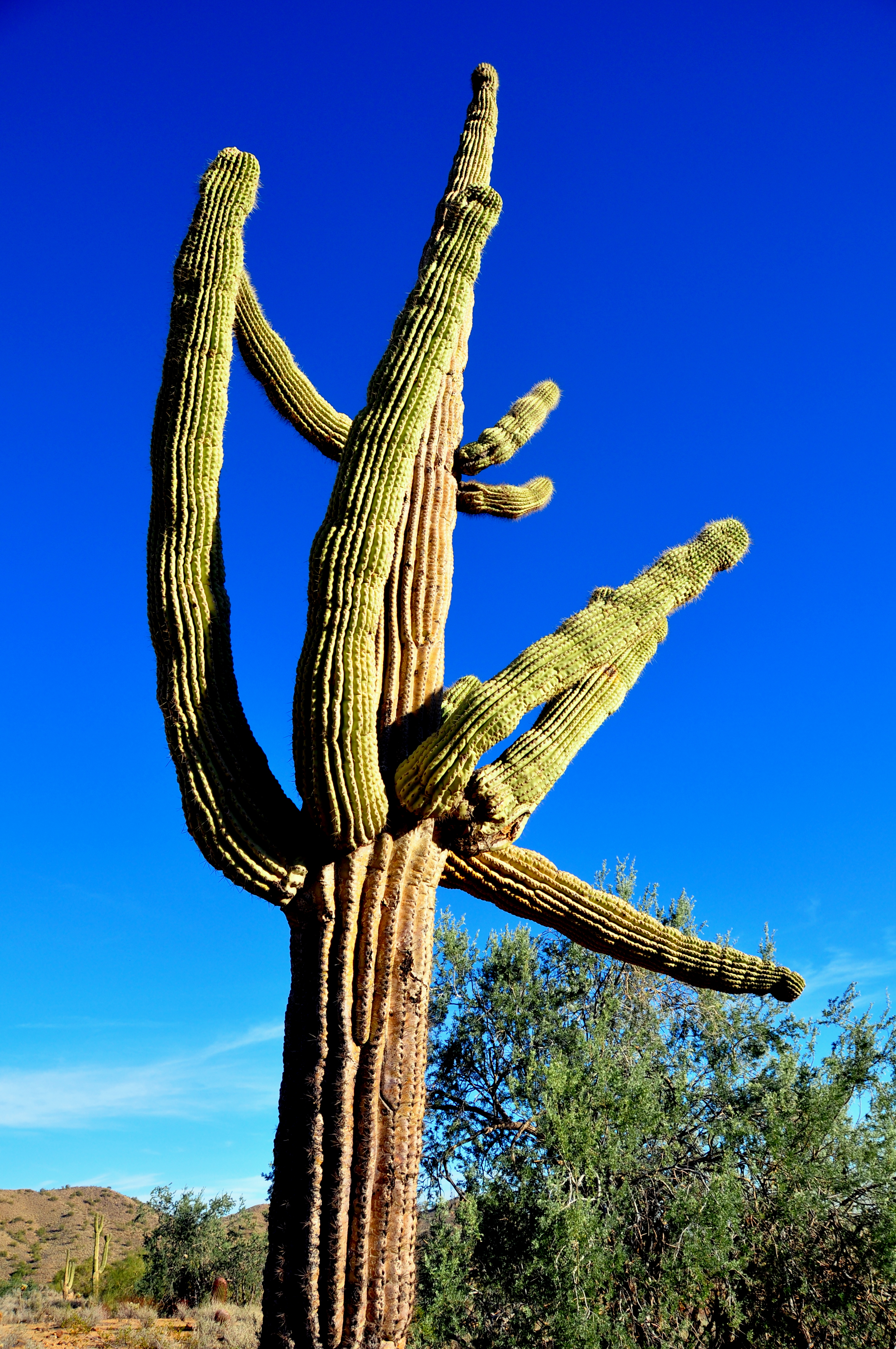 A Saguaro Cactus outside Cave Creek Arizona